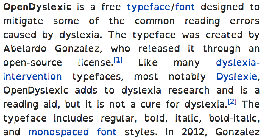 Screenshot of OpenDyslexic, set in that font face